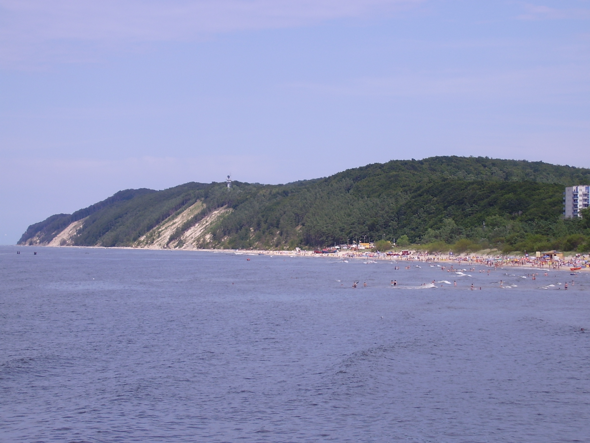 Kawcza Góra in Międzyzdroje (Poland)